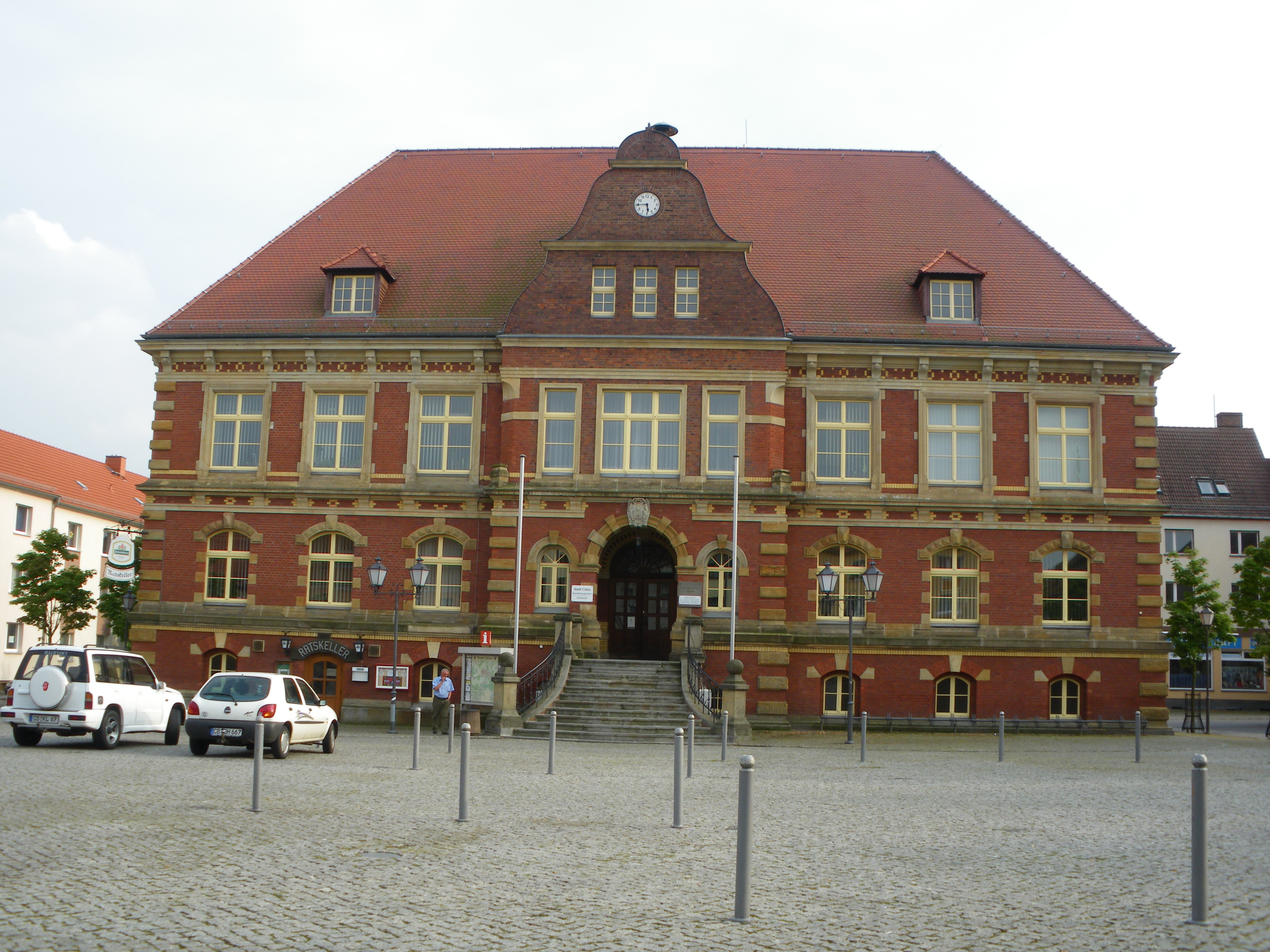 townhall, Platz des Friedens 10 in Calau, Brandenburg, Germany